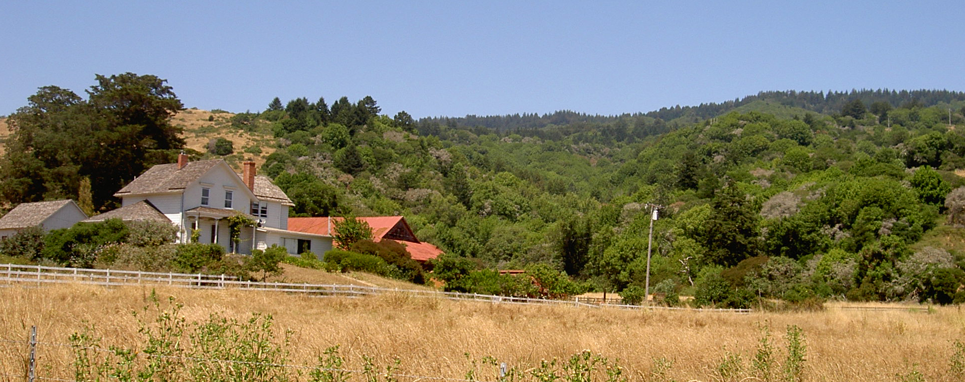 farmhouse in Wilkins Gulch in western Marin County seen from California State Route 1 at